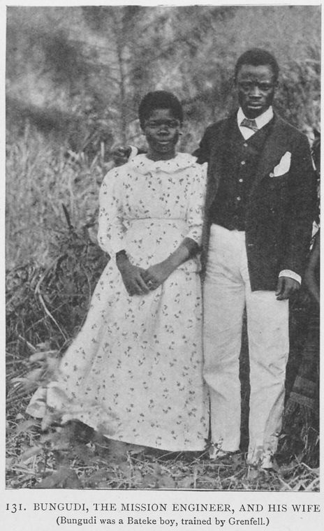 RLIN/OCLC: NYPGR2394152-B NYPL catalog ID (B-number): b11576476 Universal Unique Identifier (UUID): 4a76d1e0-c6dd-012f-3d0d-3c075448cc4b